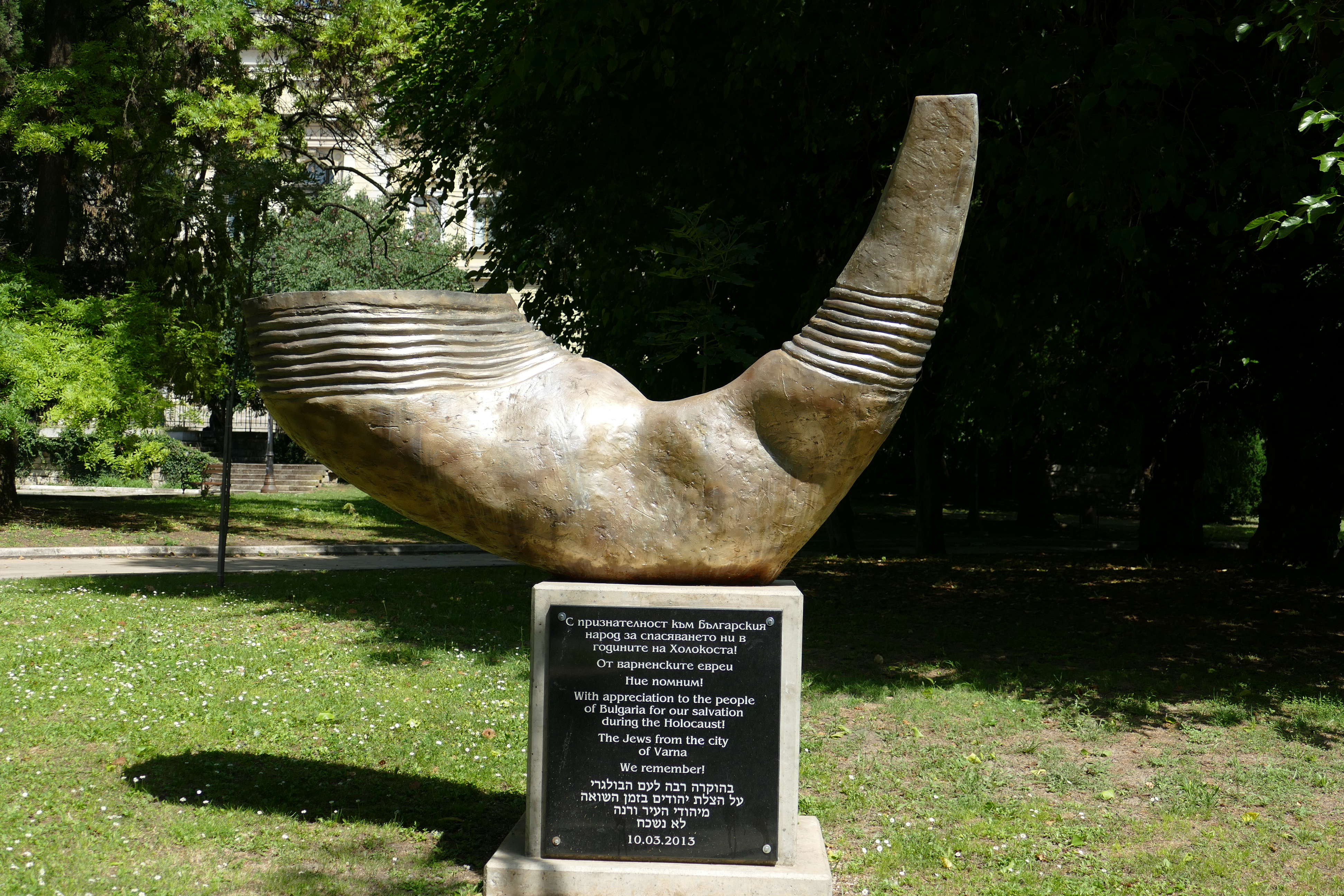 Jews salvation memorial, Varna